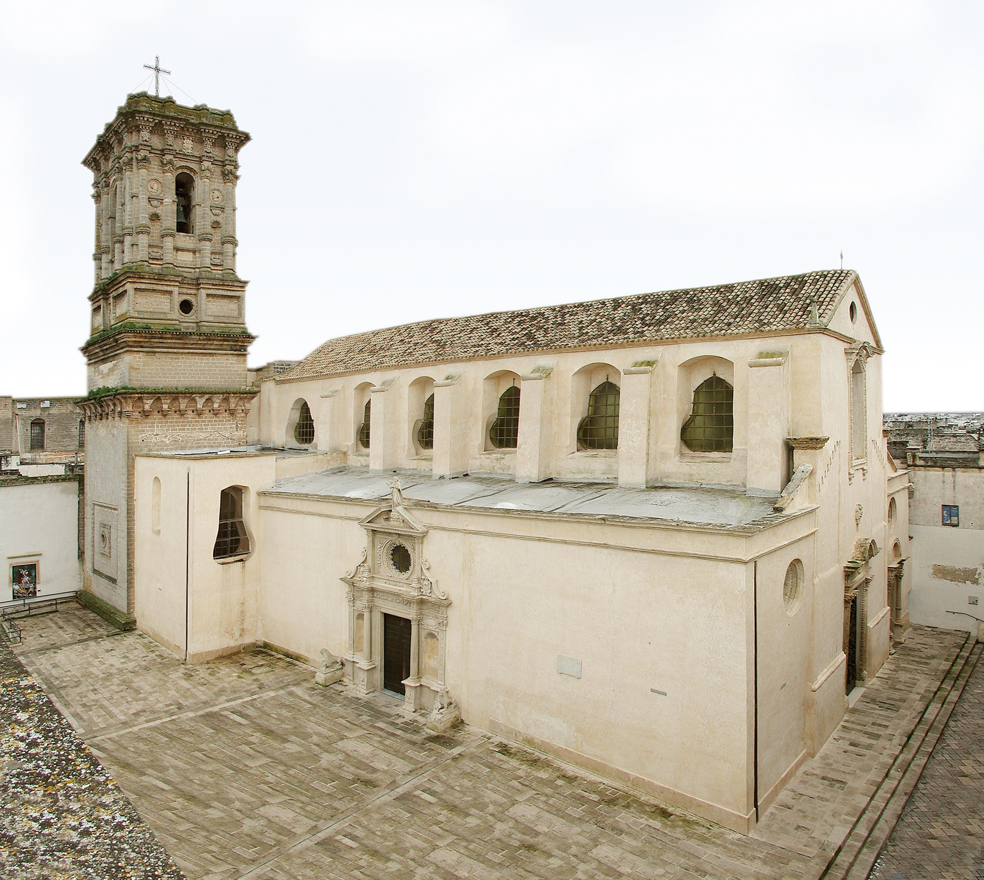 Papal Basilica of Our Lady of Snow in Copertino, Italy.